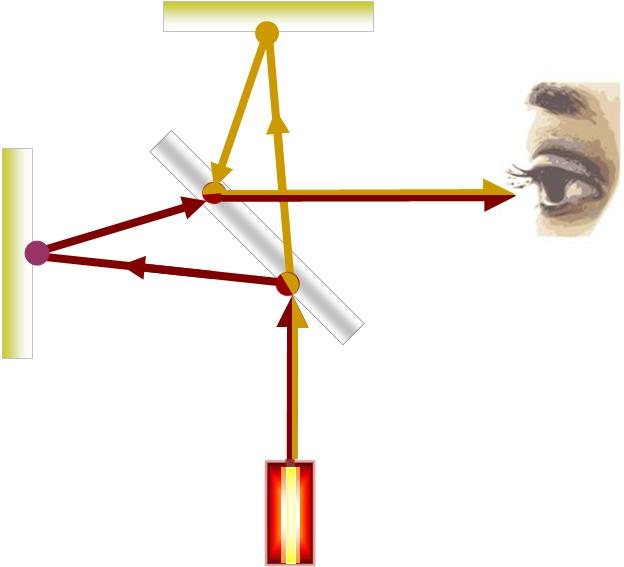 Stylized Michelson interferometer